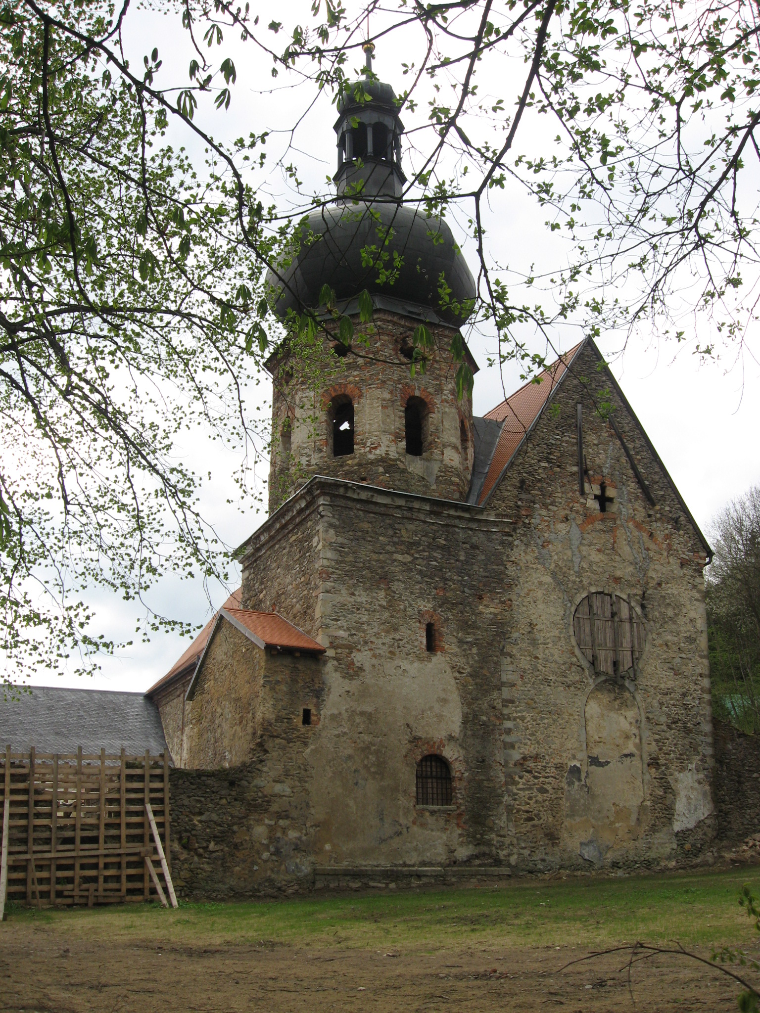 Monastery Pivoň by Mnichov u Poběžovic, Domažlice District, Czech Republic